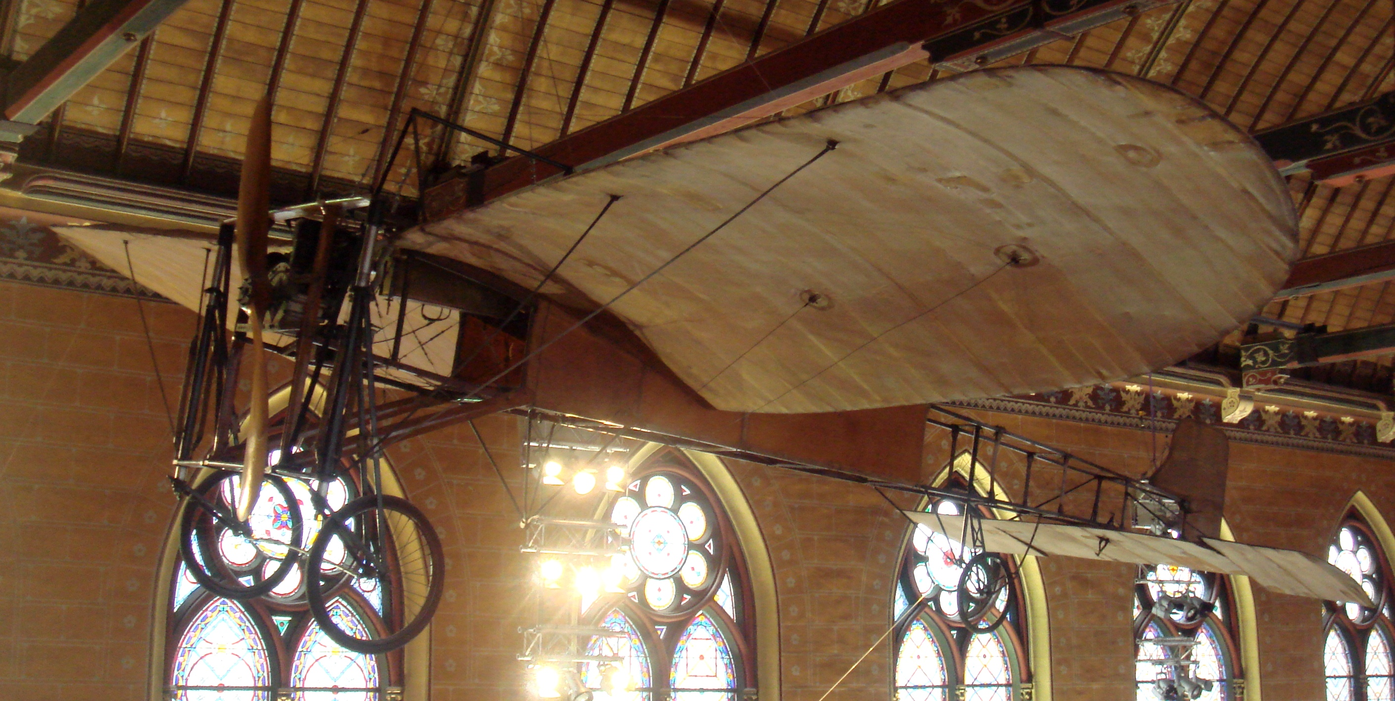 Bleriot XI plane (1909). This is the plane on which Bleriot crossed the Channel. Photographed at the Musee des Arts et Metiers.